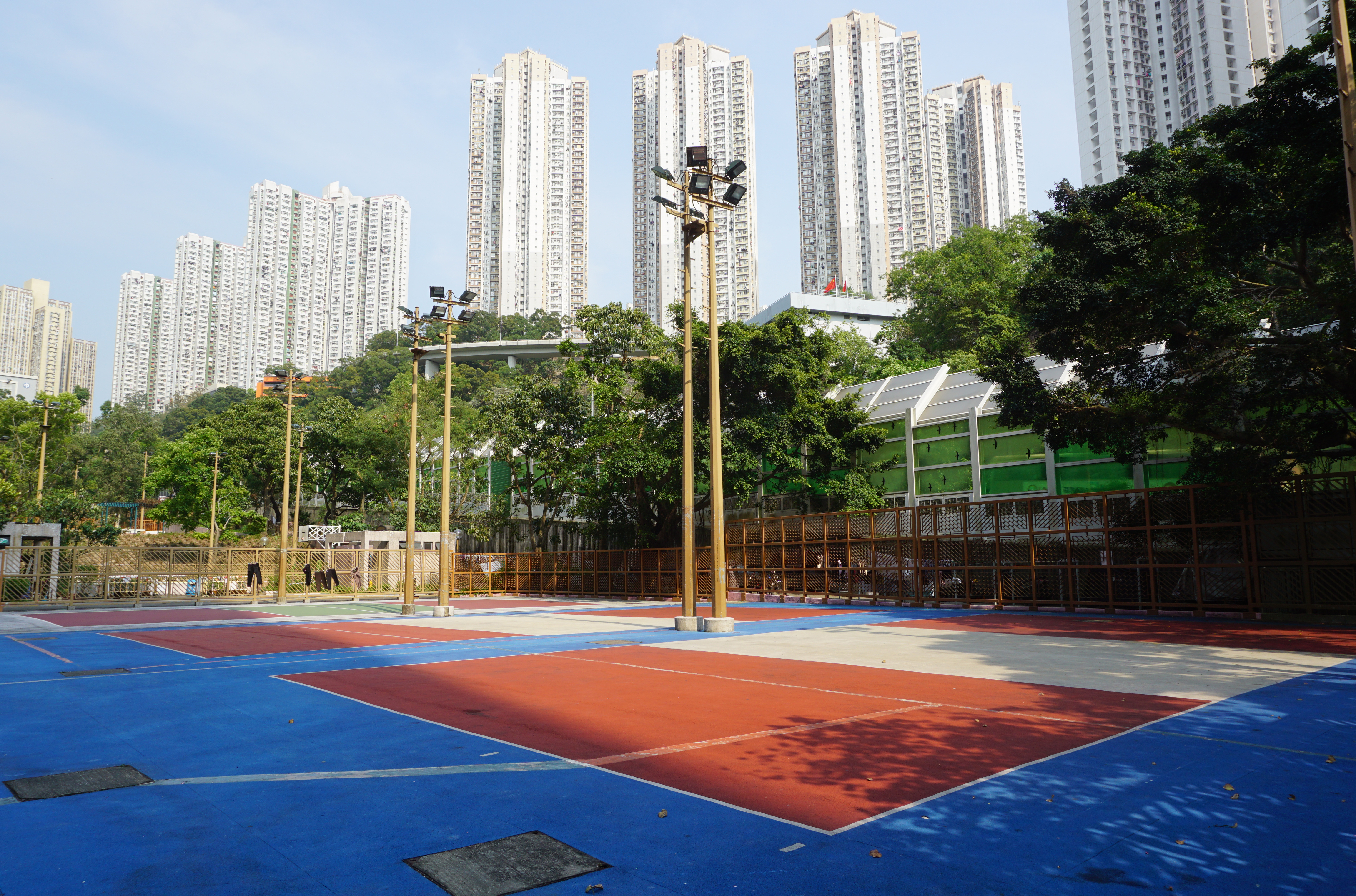 Tsui Ping (South) Estate in Kwun Tong, Hong Kong.